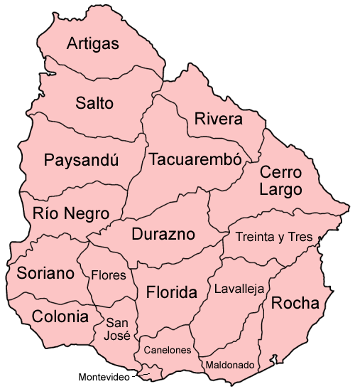 Map of the departments of Uruguay in Spanish (local language). Made by User:Golbez.